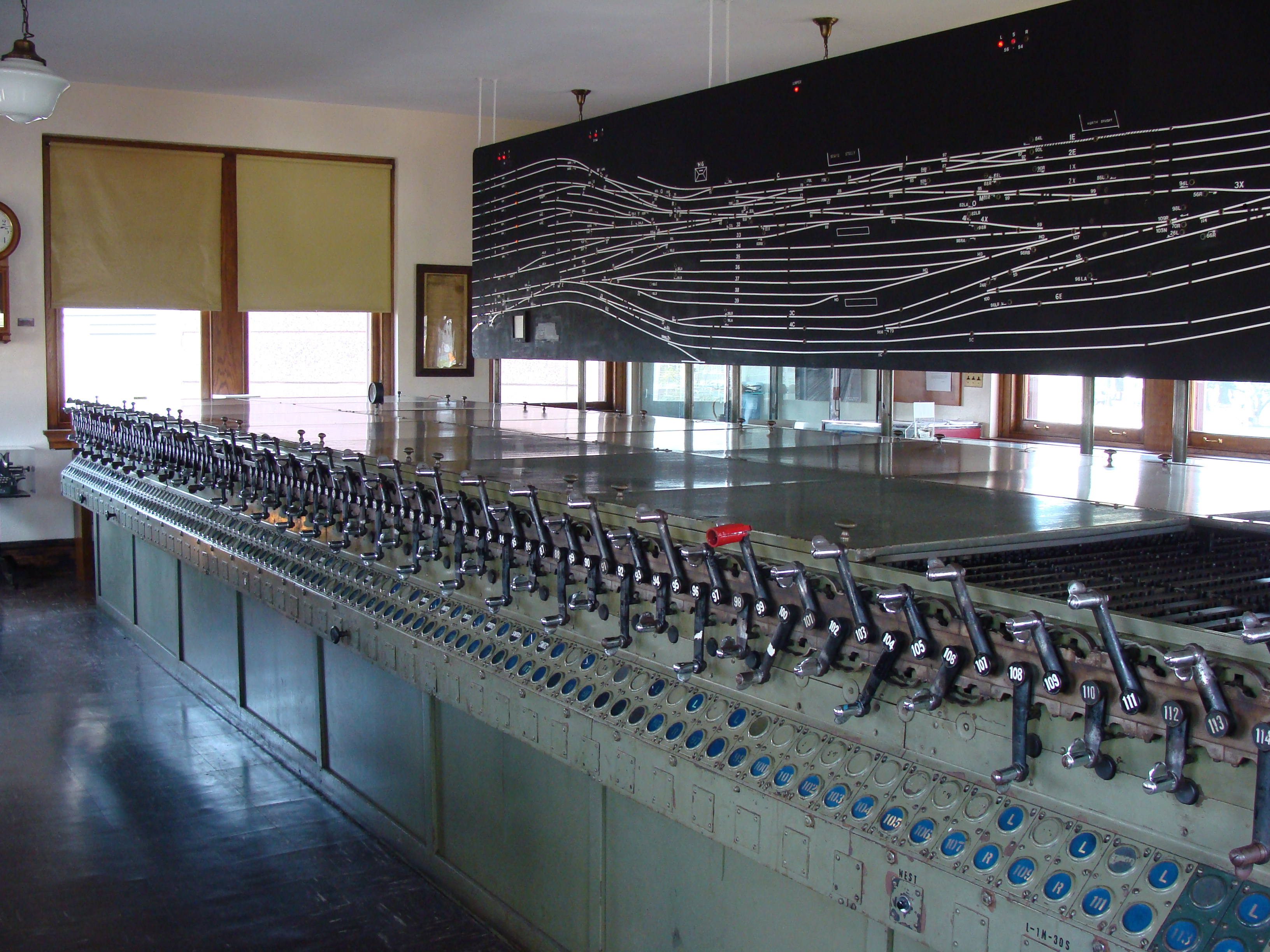 The interlocking machine inside Harris Switch Tower in Harrisburg, Pennsylvania. The machine is a Union Switch & Signal Model 14 with 115 levers. Installed 1930, removed from service in 1980s. The machine has been restored and is connected to a computer simulator for a railway musem at the tower.